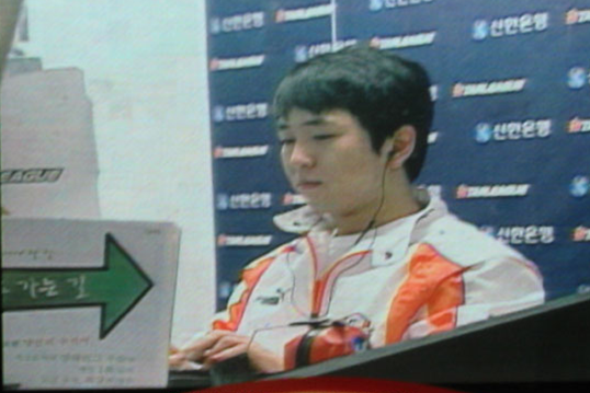 Jo Yong Ho at the first season of the Shinhan Starleague